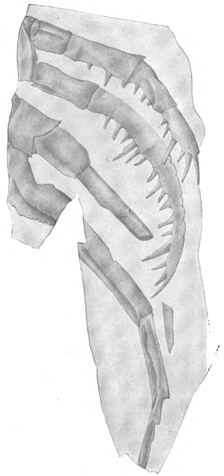 The Eurypterida of New York. Volume 1. New York State Museum Memoir 14, figure 62